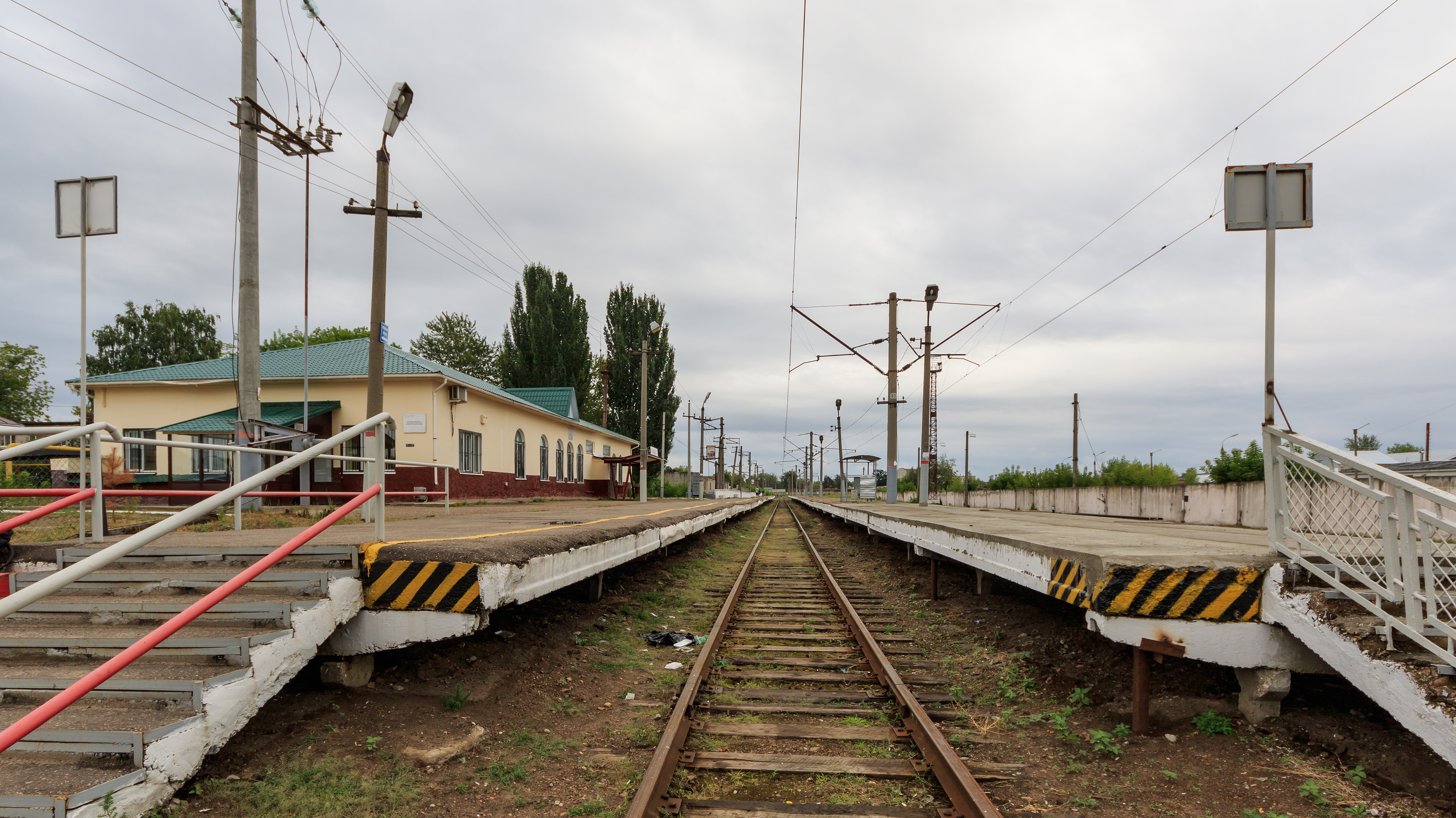 Railway station in Volzhsk, Mari El, Russia